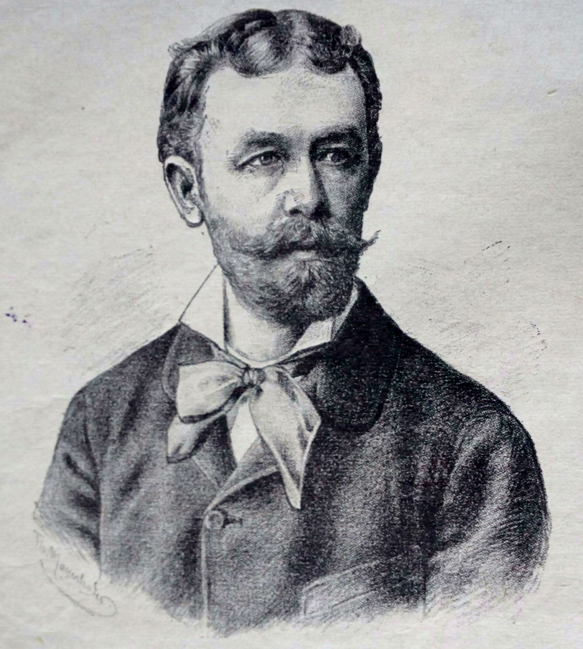 Nikola Nika Maksimović (1840-1907), Serbian lawyer and politician. Taken from the 1883 edition of the Veliki srpski narodni ilustrovani kalendar Godišnjak Srpski (latinica): Nikola Nika Maksimović (1840-1907), srpski advokat i političar. Preuzeto iz izdanja Velikog srpskog narodnog ilustrovanog kalendara Godišnjak za 1883. godinu.